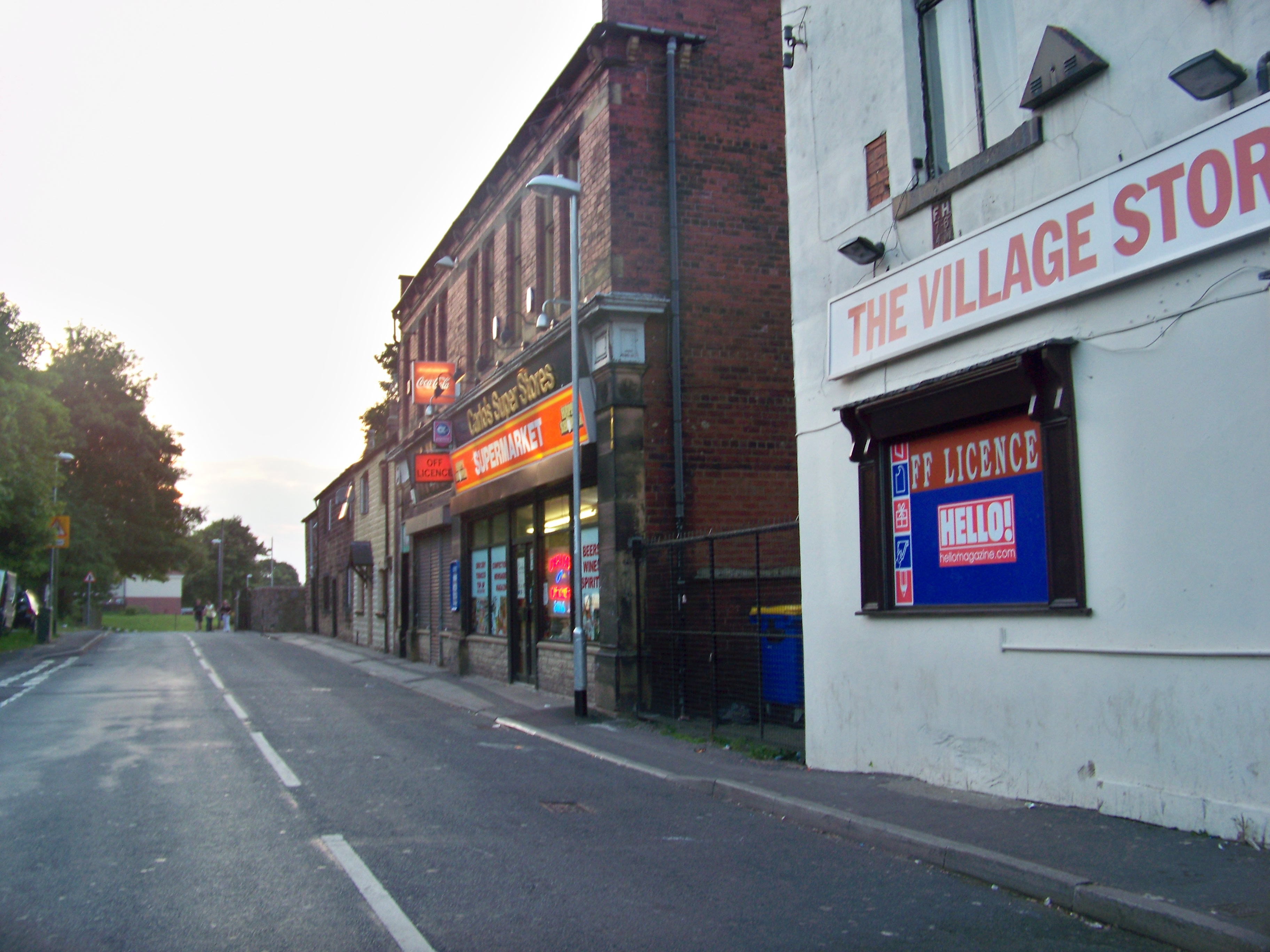 Shops in Farnley (situated inbetween New Farnley and Old Farnley).